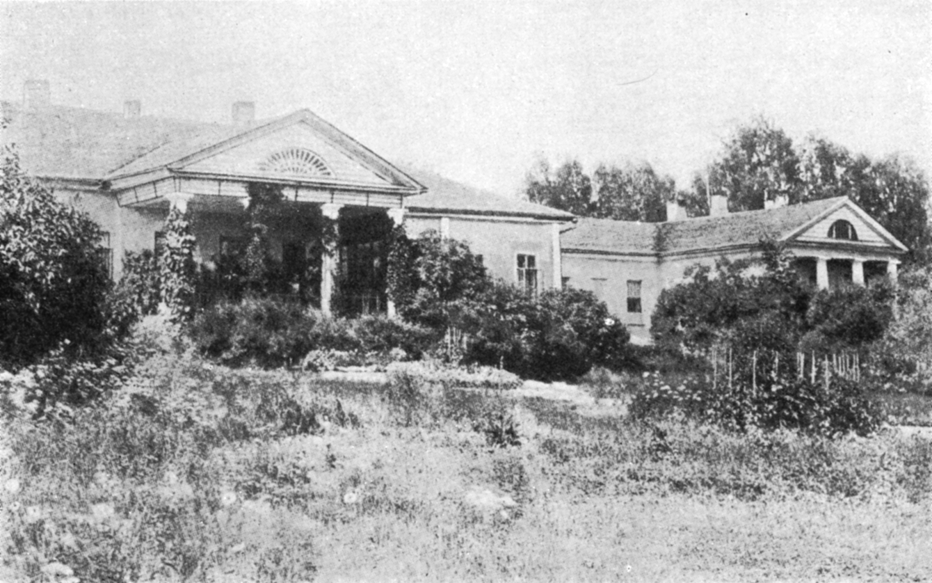 House of Bakunins birth in Pryamukhino.